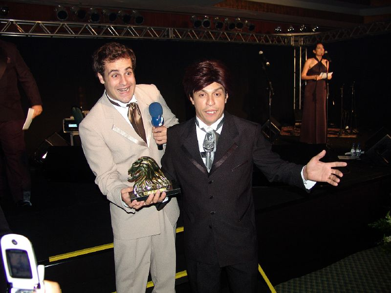 Wellington Muniz (Ceara, as characterizing Silvio Santos) and Rodrigo Scarpa (Vesgo).